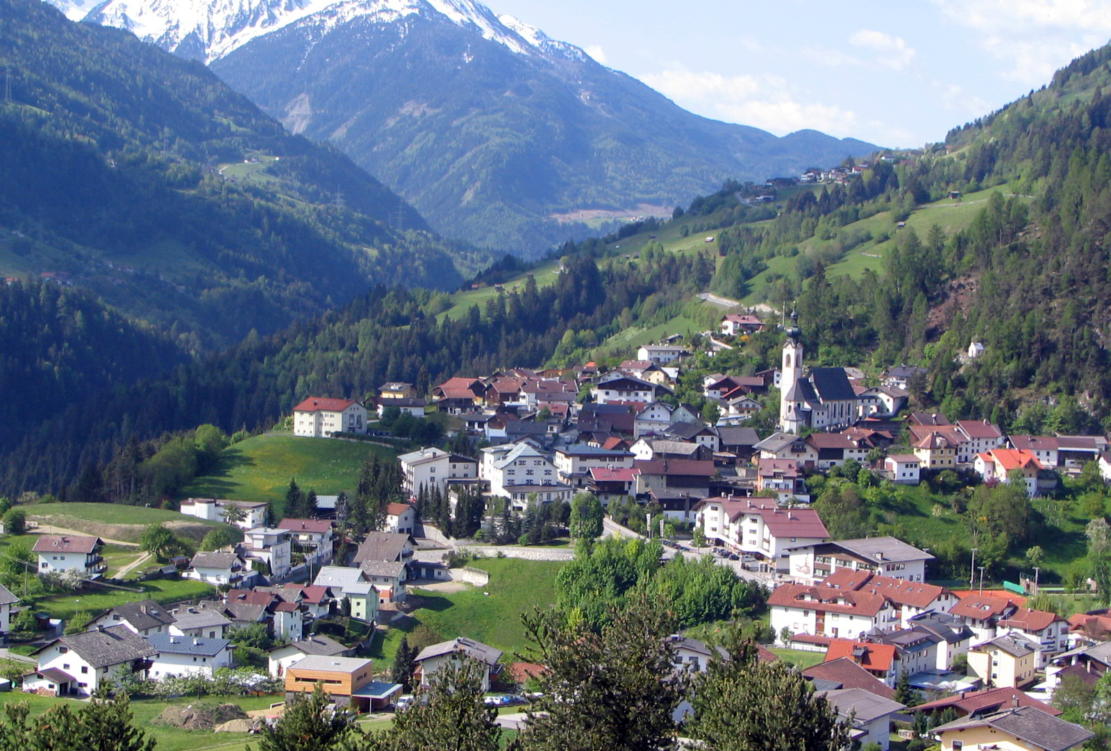 Arzl im Pitztal, Tirol, Austria